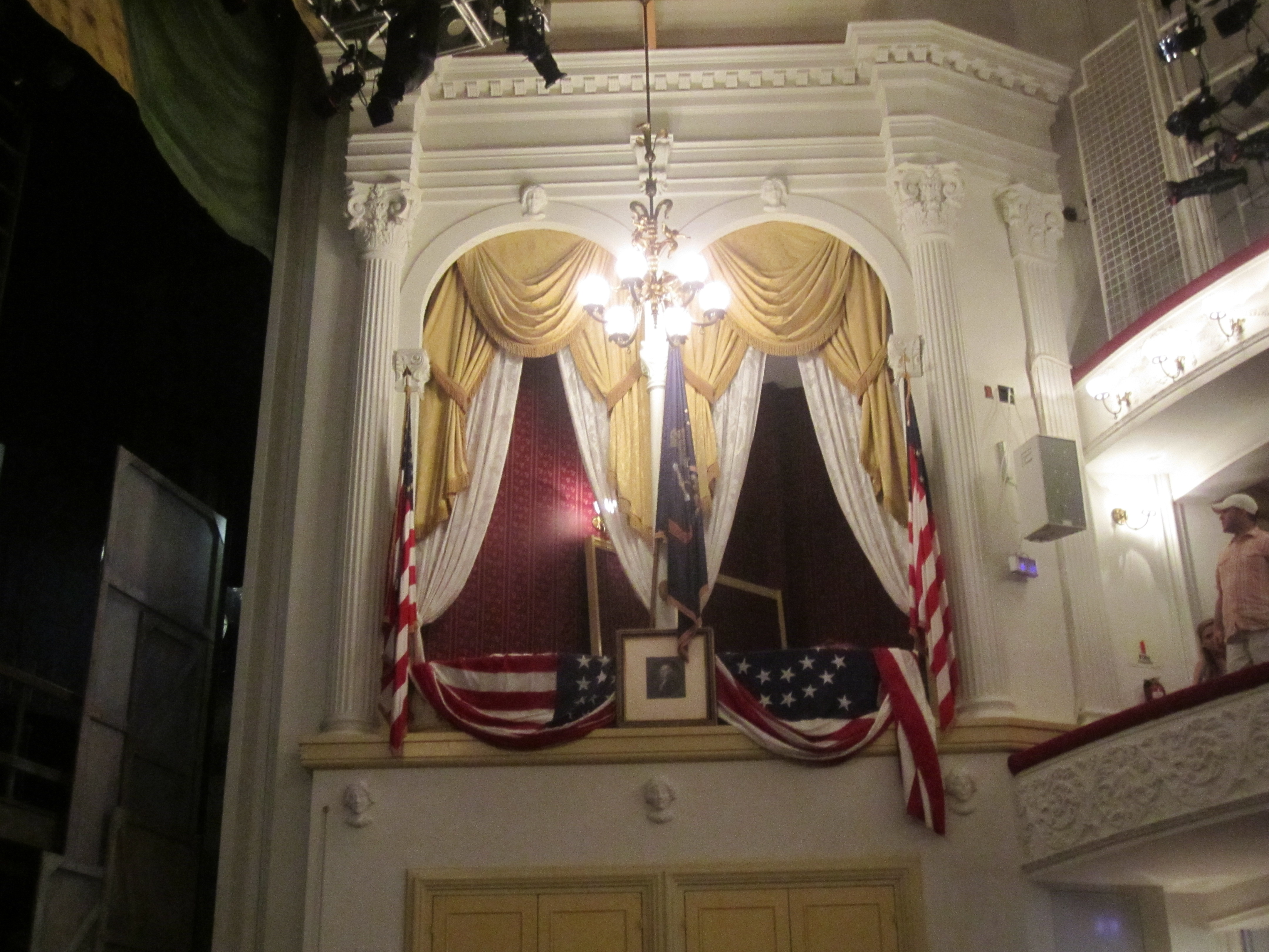 I took photo of Presidential Box at Ford's Theatre with a Canon camera.